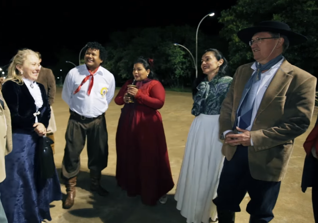 Brazilian and paraguayan people in a meeting. A common thing that happens in Pedro Juan Caballero and Ponta Porá, where cultures coexist.